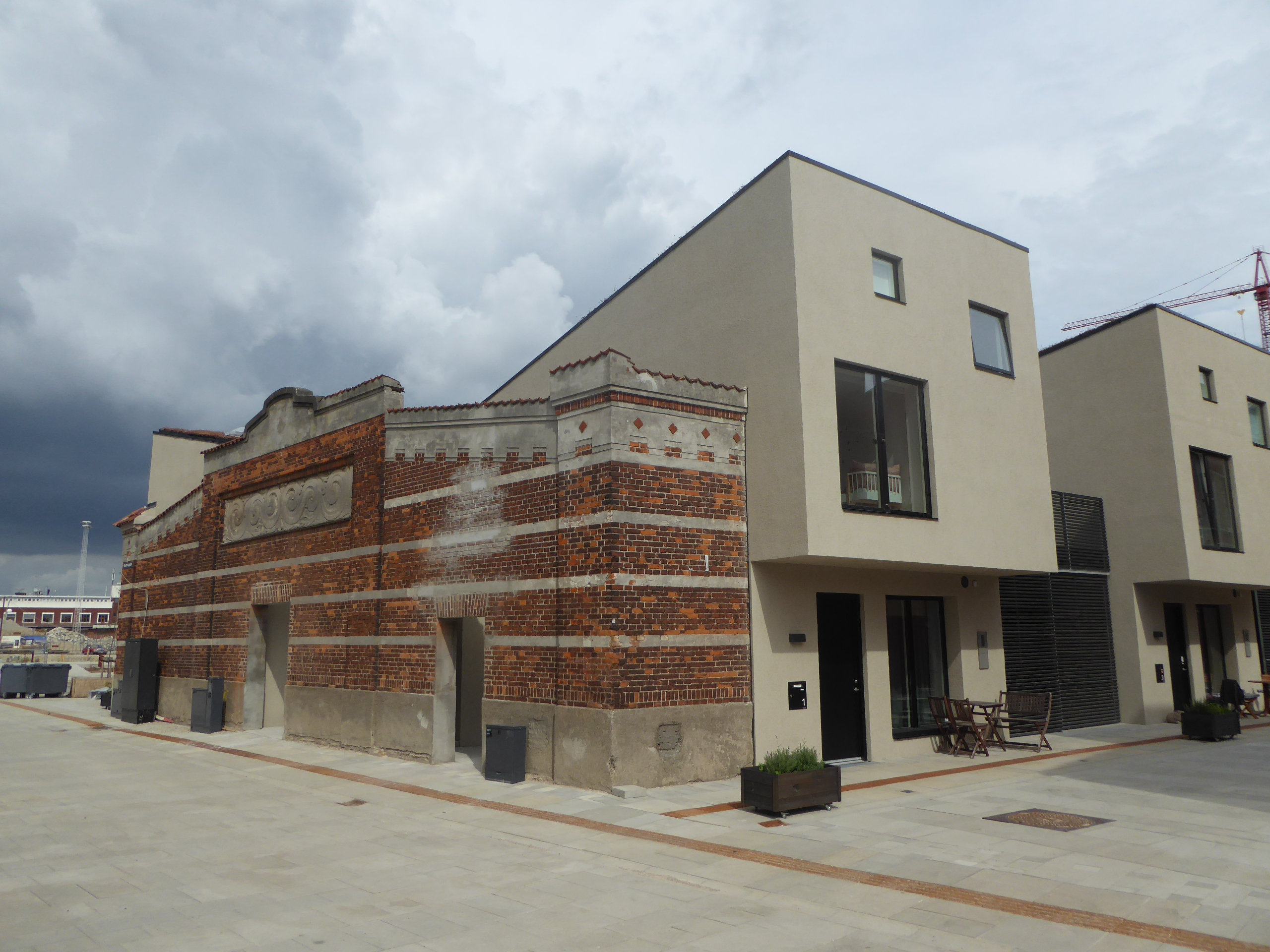 Some of the buildings named Frikvarteret at the corner of Rostockgade and Kielgade in Nordhavn in Copenhagen. The house end was originally build by Christian Agerskov in 1916-1919 for a warehouse.